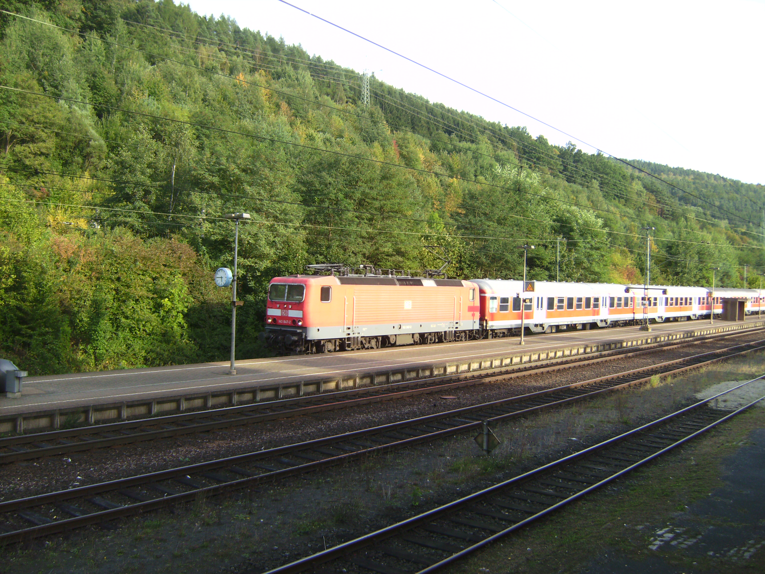 A regional train from Gemünden (Main) to Schlüchtern stops at the railway station of Burgsinn